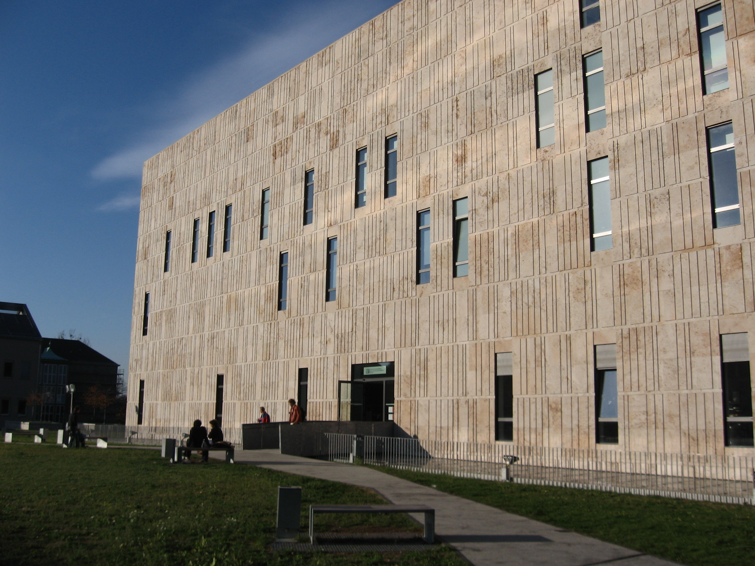 Area of the SLUB